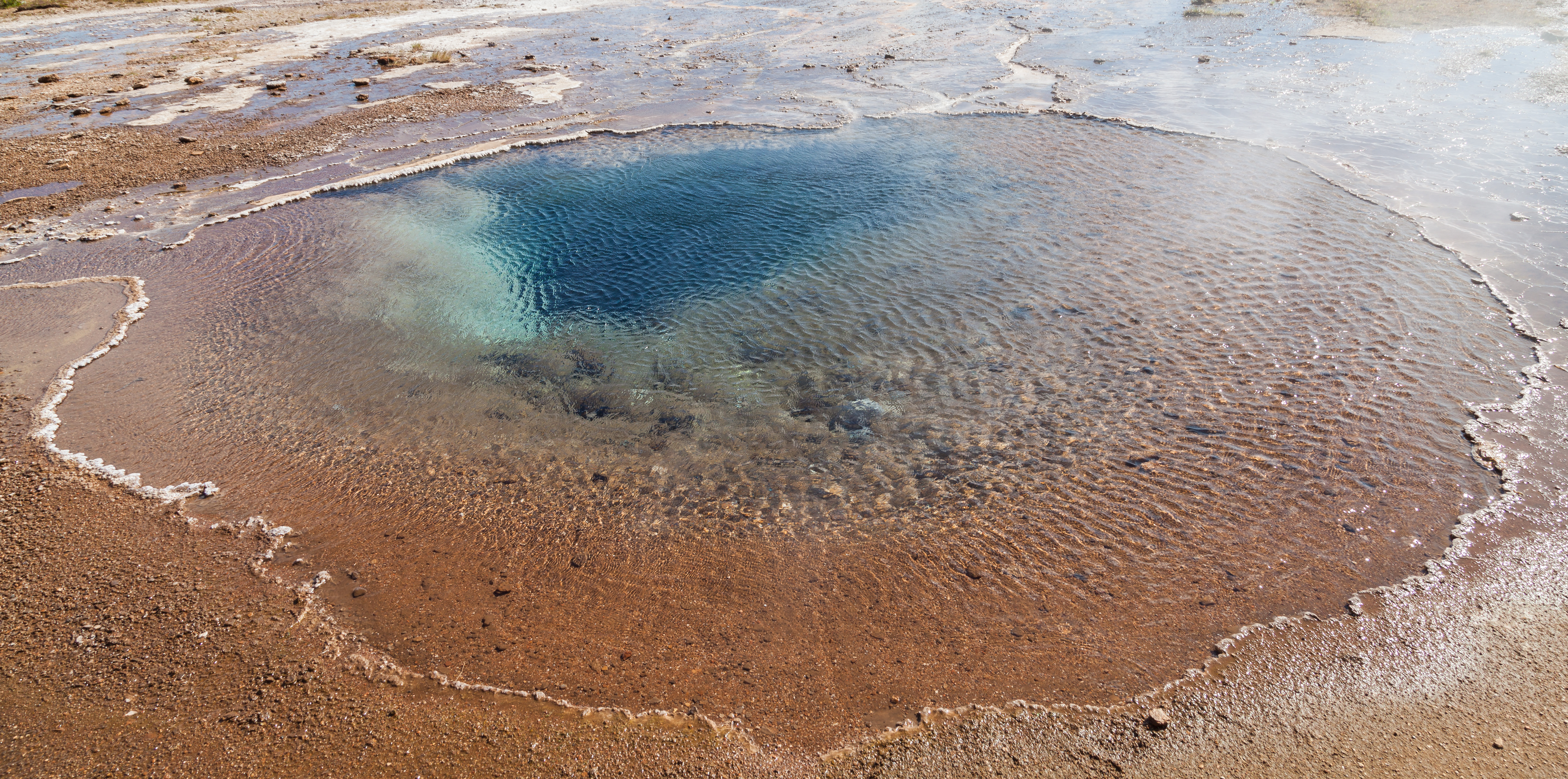 Blesi, Geysir Geothermal Field, Suðurland, Iceland